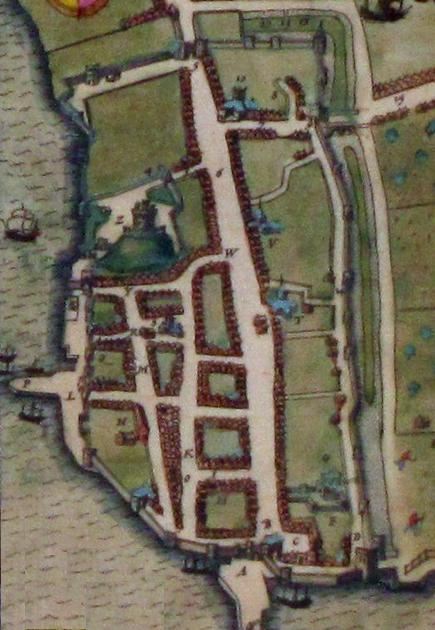 Detail of John Speed's 1615 map of Isle of Wight